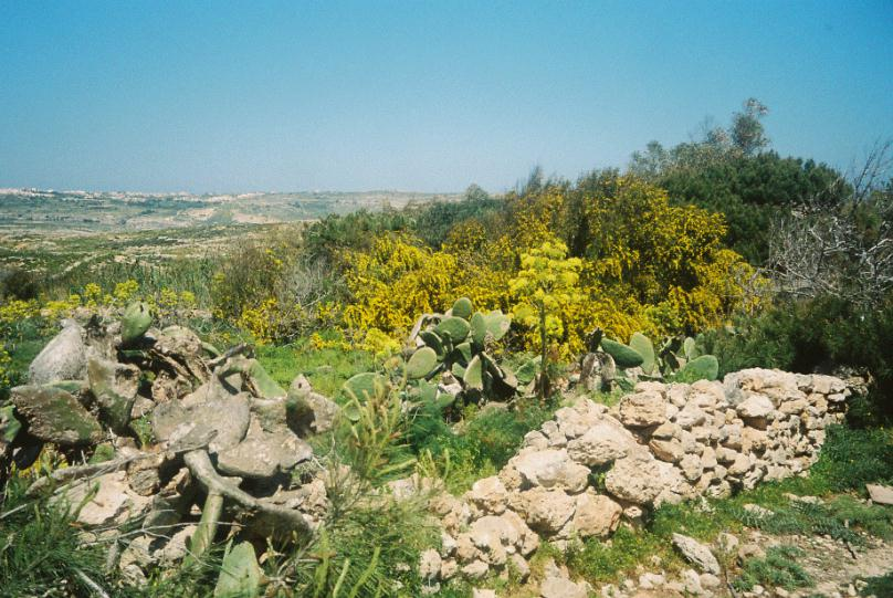 Landscape of the Comino Island Malta